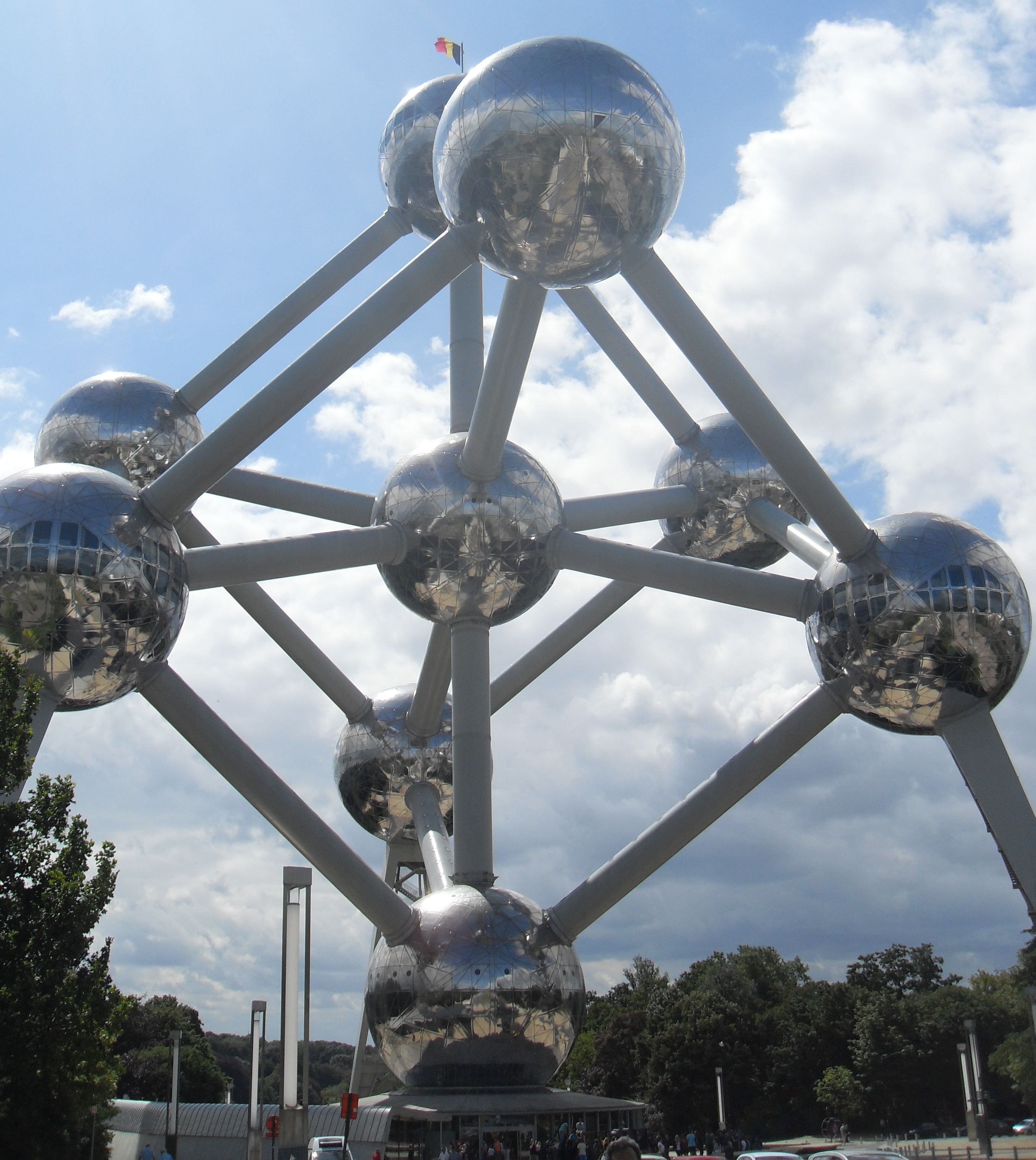 Atomium Monument at Brussels